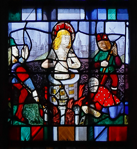 Detail of the stained glass window of the 30th bay, depicting St. John plunged into boiling oil at the Porta Latina in Rome, created c. 1500. (See pp. 161 in Martine Callias Bey and Véronique David: Les vitraux de Basse-Normandie, ISBN 2-84706-240-8.)